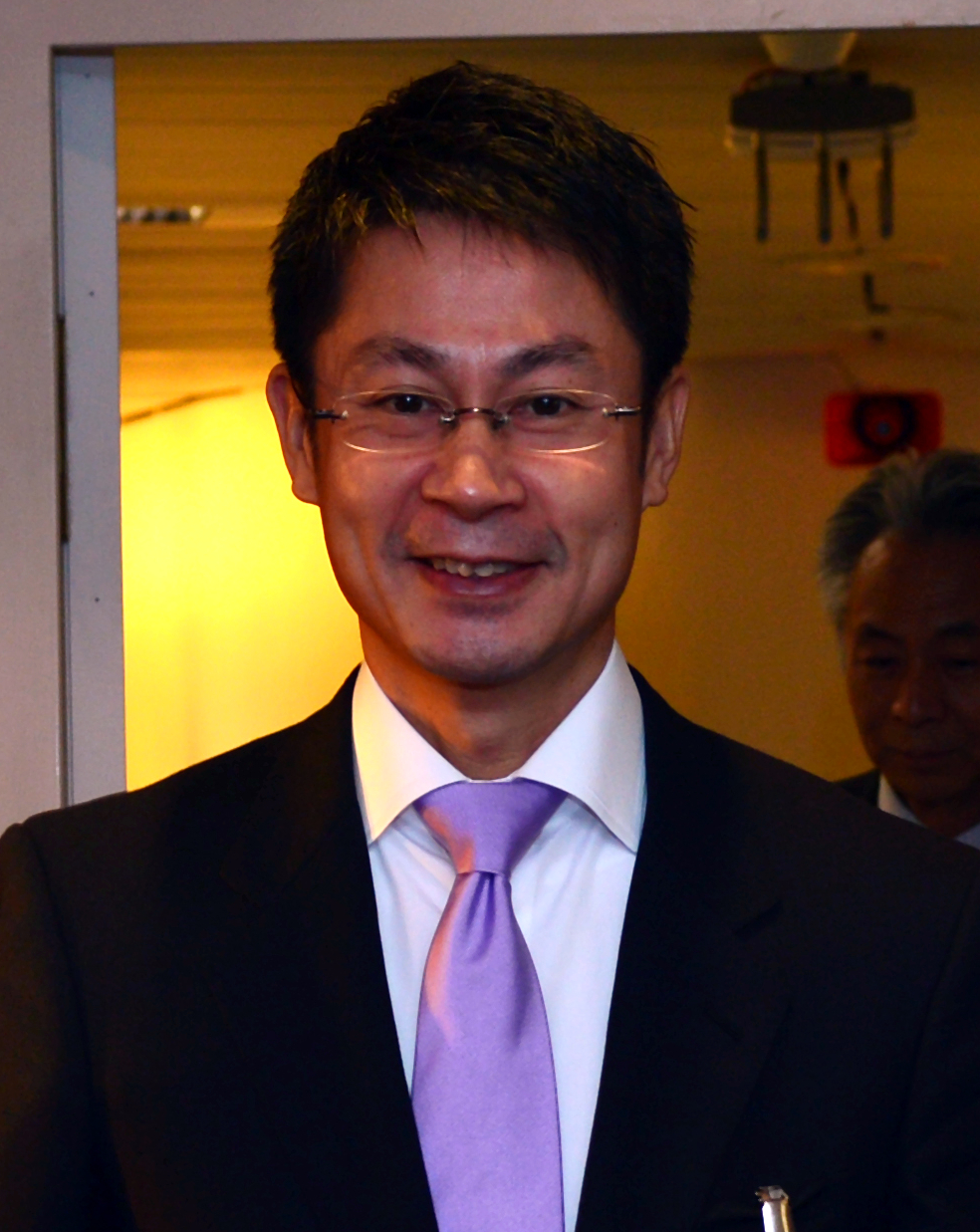 Hidehiko Yuzaki, Governor of Hiroshima Prefecture, and Toshirō Ozawa, Ambassador to the International Organizations in Vienna, visited the International Atomic Energy Agency Headquarters in Vienna City, Vienna State on November 2, 2012.